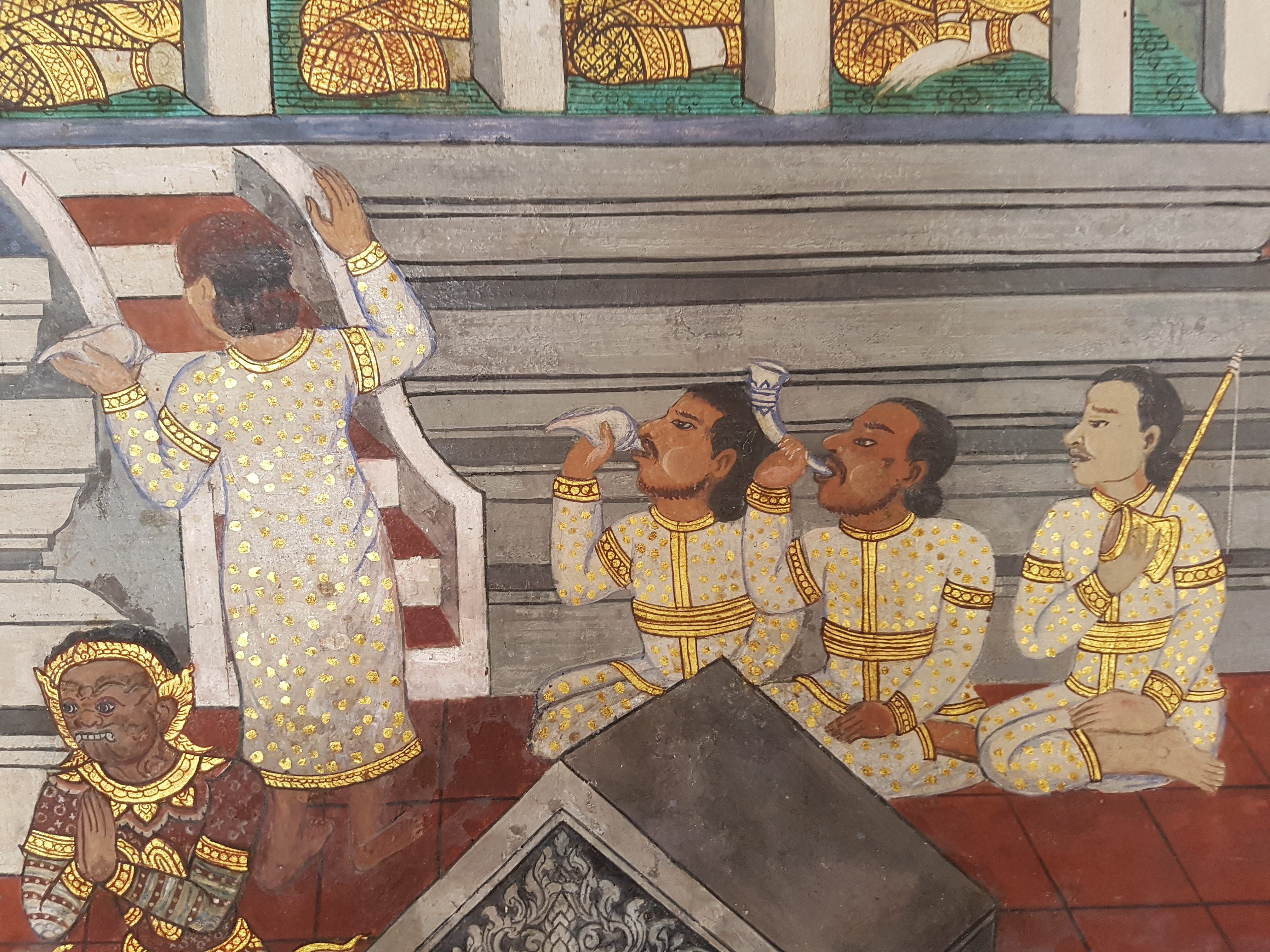 Overview: Painting at the Temple of the Emerald Buddha, Bangkok, depicting characters or scenes from Rammakian, a Thai version of the Hindu epic poem Rāmāyaṇa. Characters/scenes depicted: Brahmin priests at court.